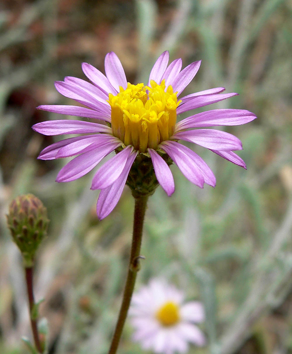 Photo of Lessingia filaginifolia var. filaginifolia at the Regional Parks Botanic Garden